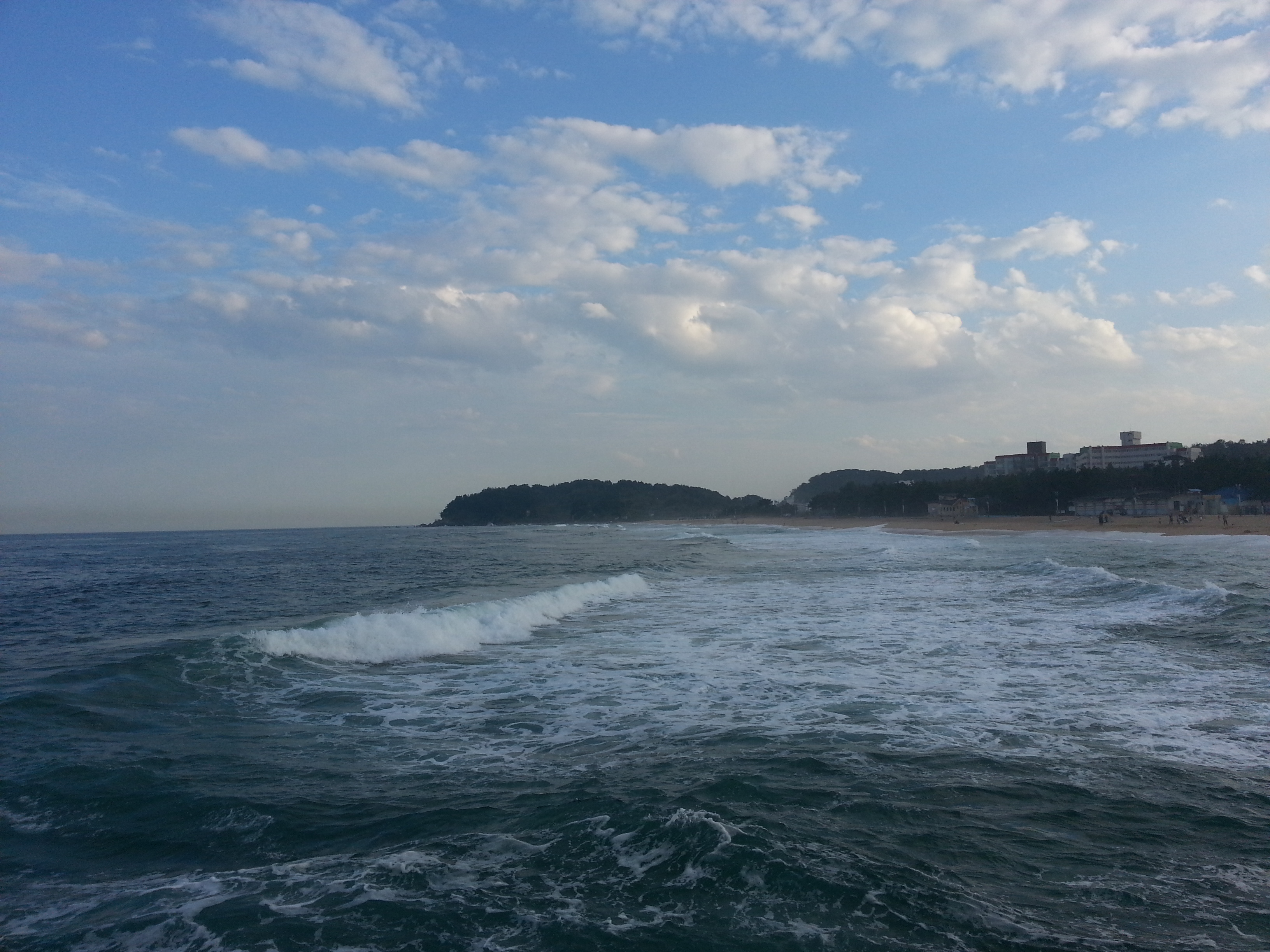 View on the city of Sokcho from the easter coast.